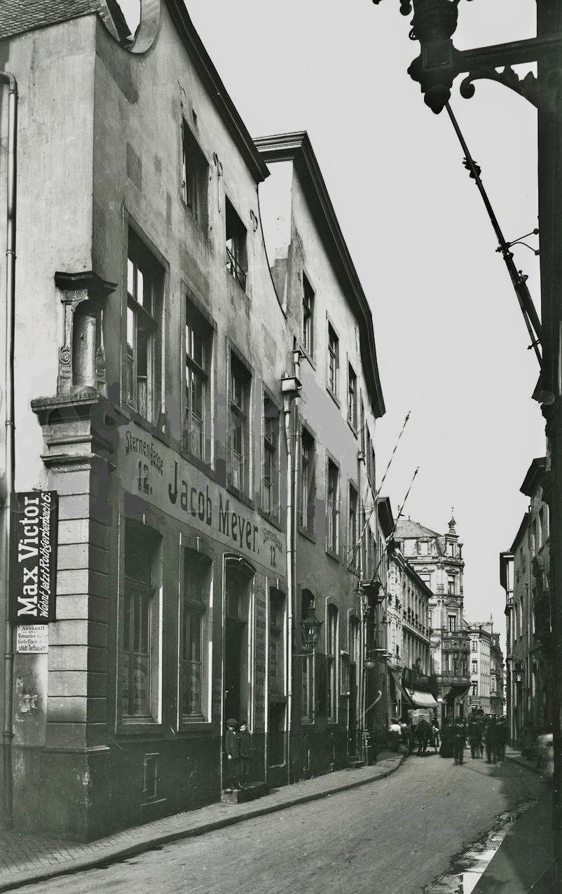 Sternengasse 10-12 (1910)